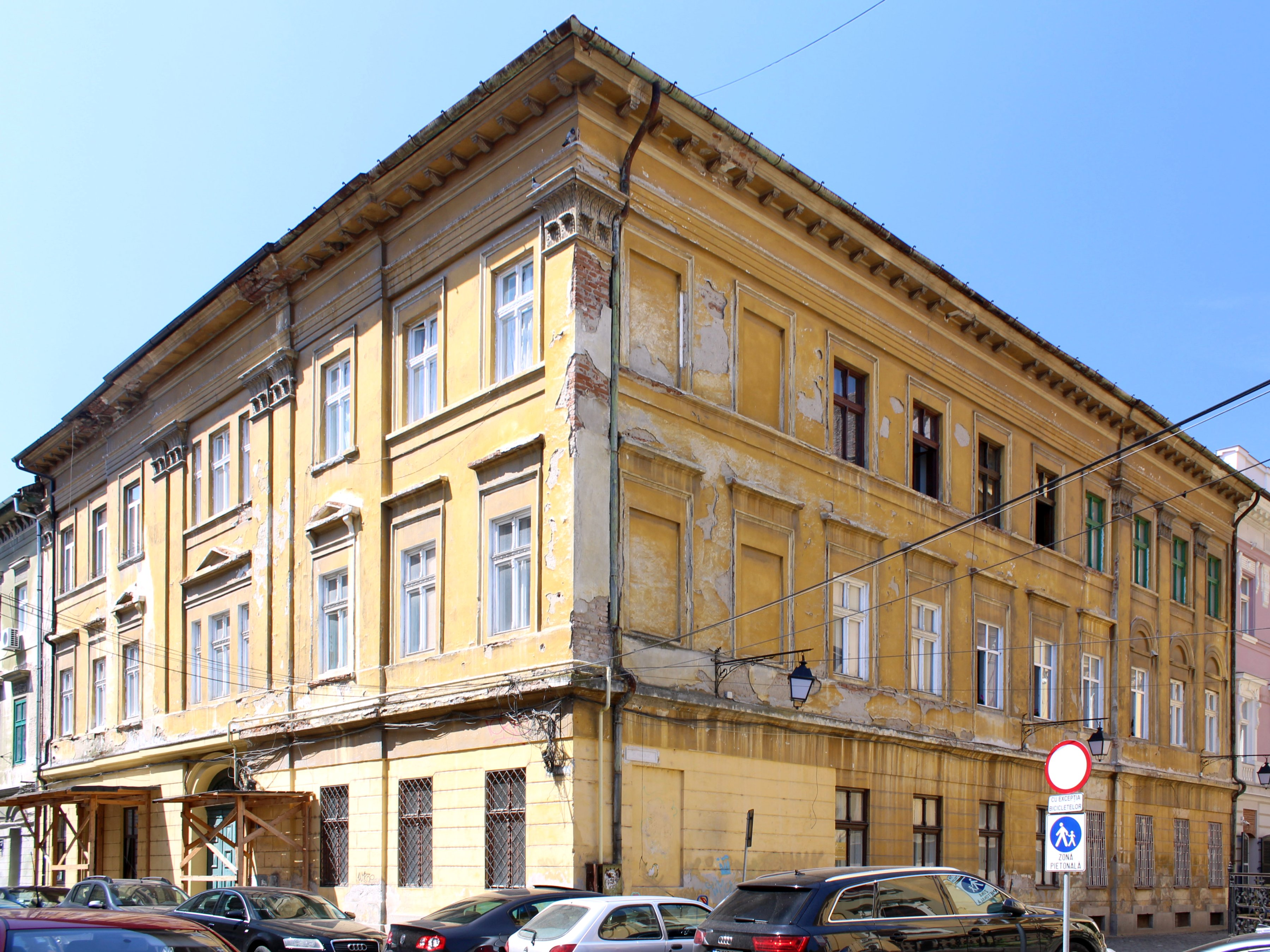 House, Paul Chinezu no. 1 str., Timisoara, Romania, built 1859